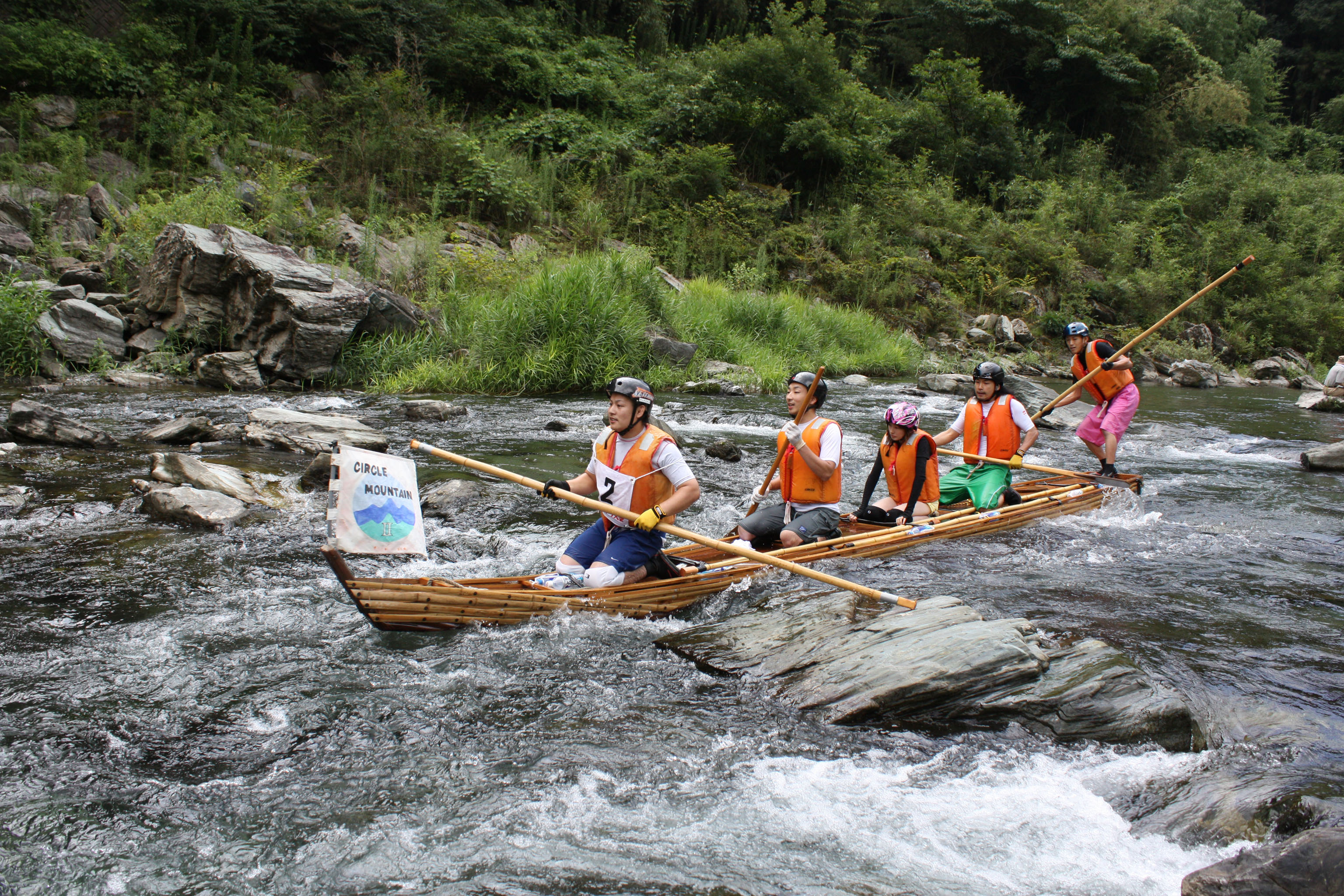 Taken during the 2009 Ikada Kudari Competition in the Anabuki River, Anabuki Town, Mima City, Tokushima on August 2, 2009.